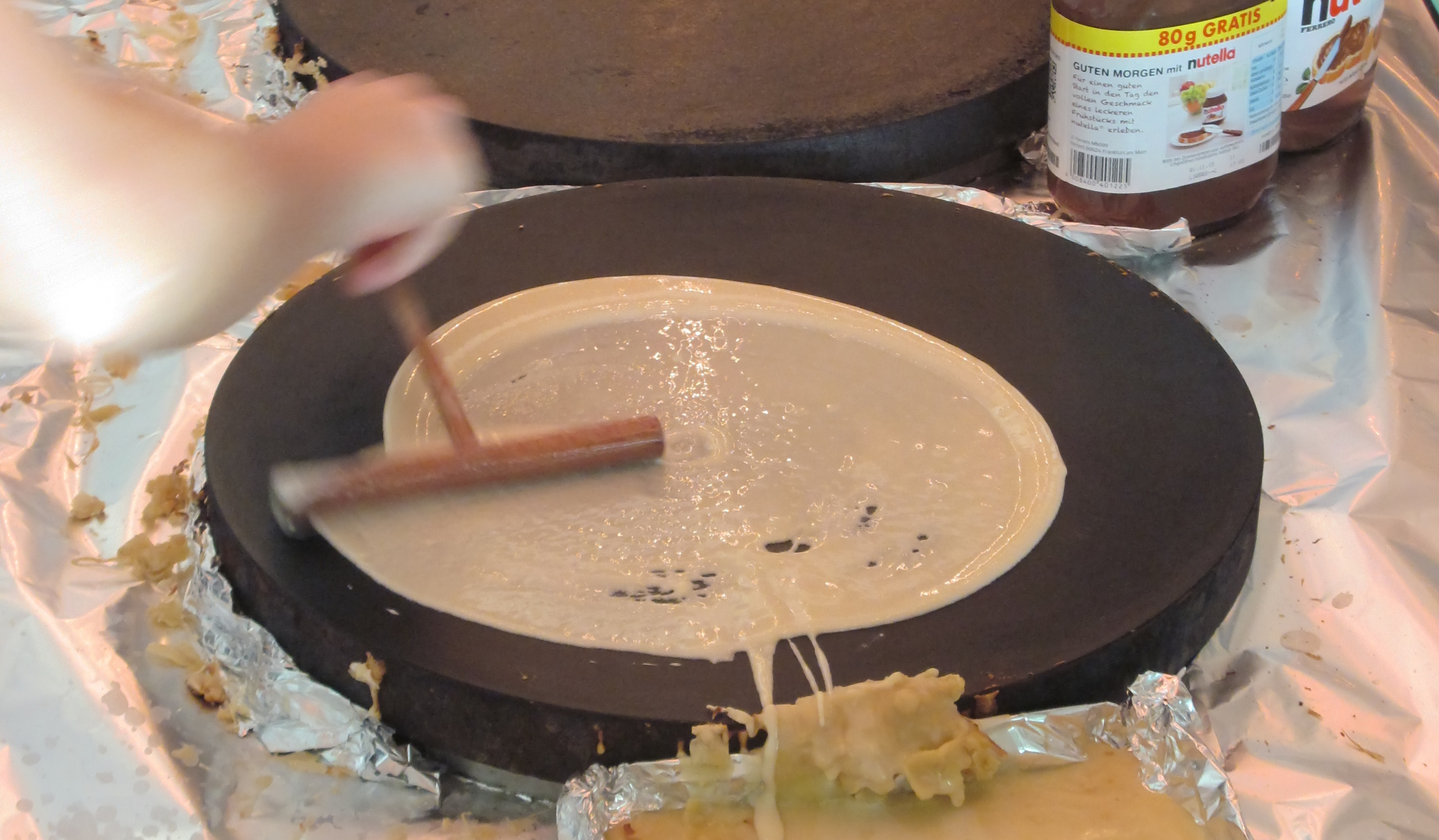 The making of crêpes as seen on a snack stand in germany. The whole process of baking this one and getting it ready to get served took a little under one minute.